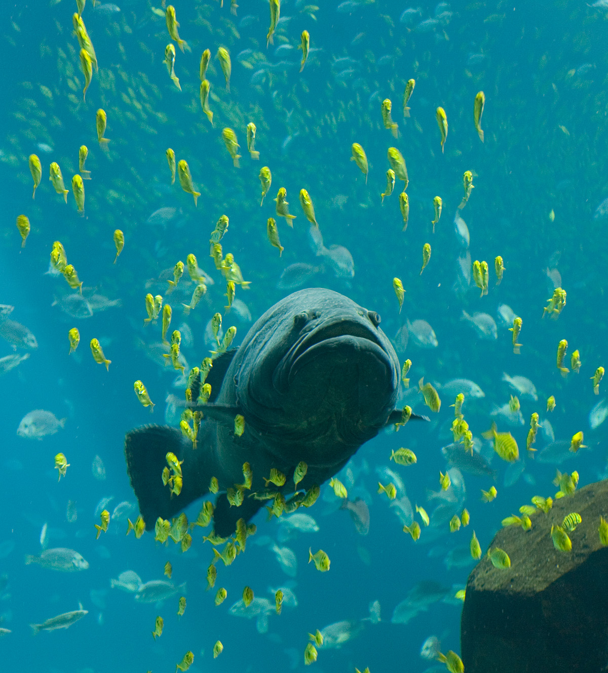 A Giant grouper taken at the Georgia Aquarium on January 23 2006 by myself with a Canon 5D and 24-105mm f/4L IS.